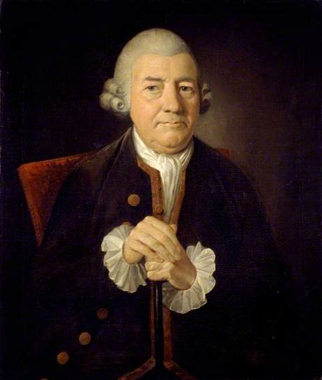 Portrait of the English printer John Baskerville by the English portrait painter James Millar., o, cm. Courtesy of the collection of Birmingham Museum and Art Galleries.